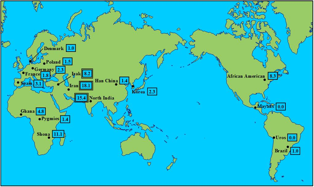 These HLA-G null allele World frequencies data are constructed from Table 3 - Ref.: Arnaiz-Villena A, Enriquez-de-Salamanca M, Areces C, Alonso-Rubio J, Abd-El-Fatah-Khalil S, Fernandez-Honrado M, Rey D (April 2013). "HLA-G(∗)01:05N null allele in Mayans (Guatemala) and Uros (Titikaka Lake, Peru): Evolution and population genetics". Hum. Immunol. 74 (4): 478–82. PMID 23261410.